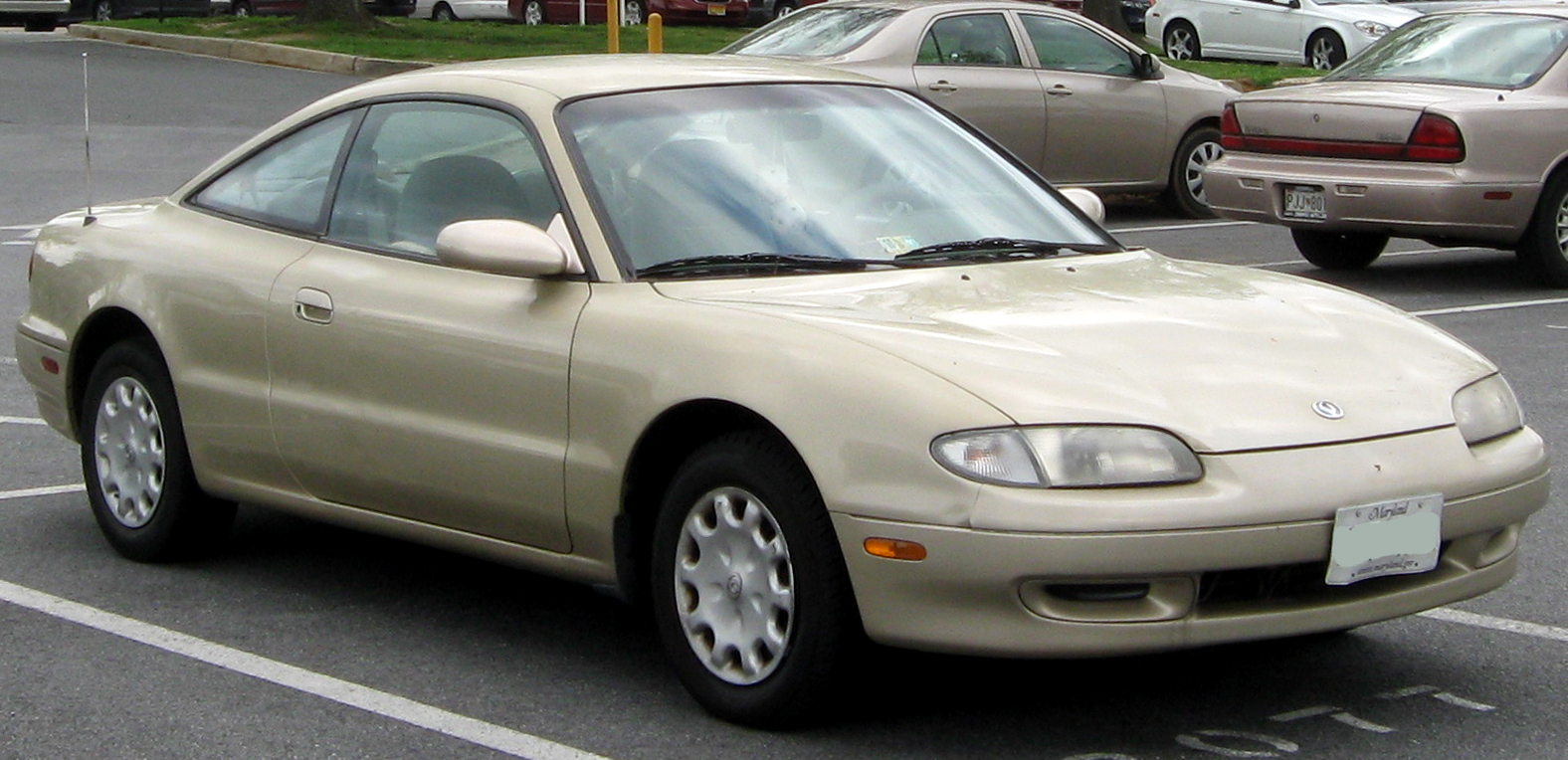 Mazda MX-6 photographed in College Park, Maryland, USA.